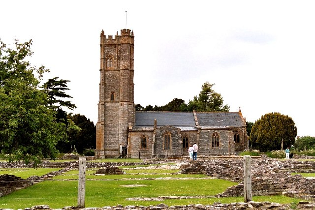 Muchelney Parish church. In the foreground are the ruins of the foundation walls of Muchelney Abbey.